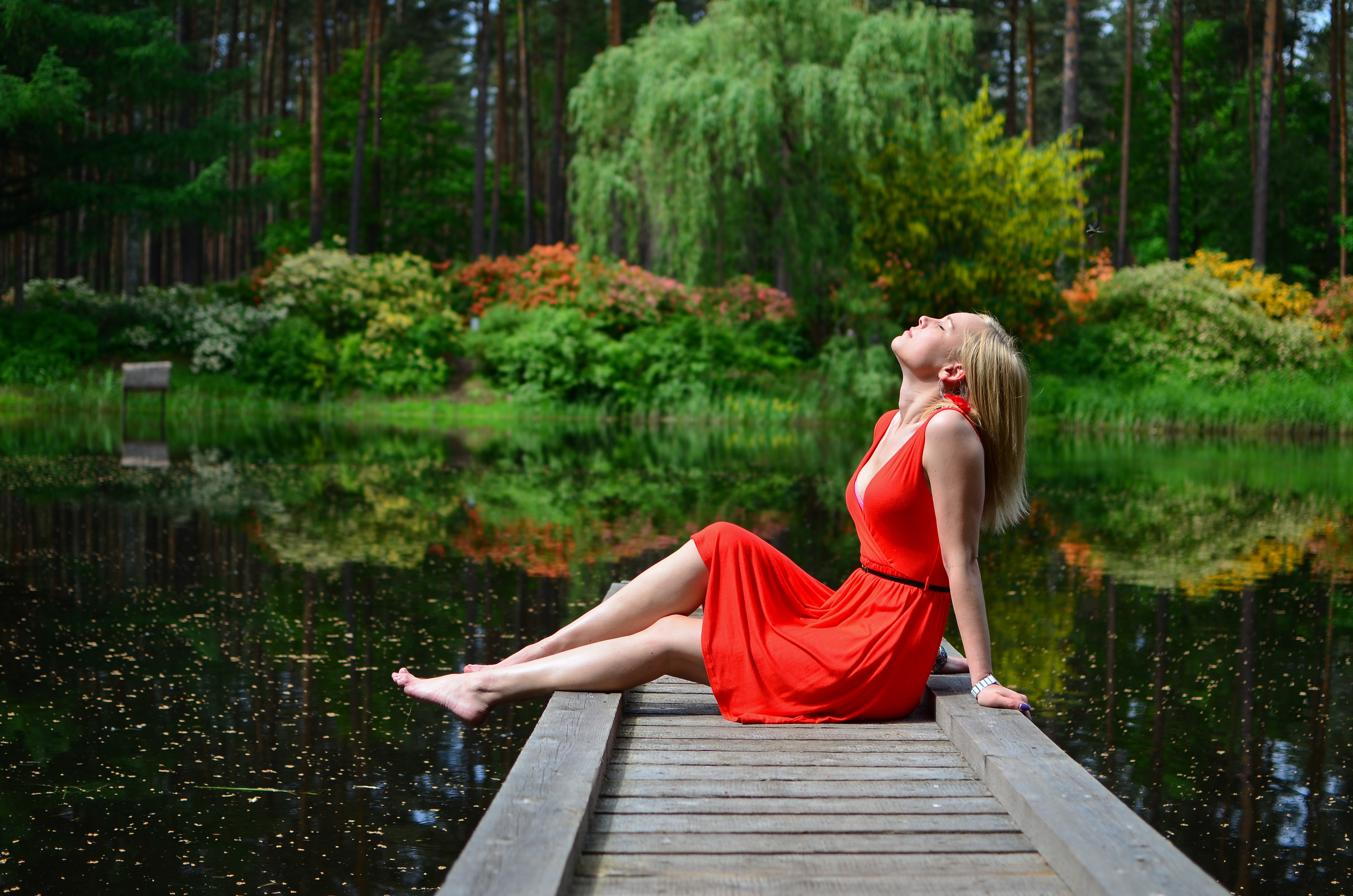 A woman sitting on a dock in a red sundress